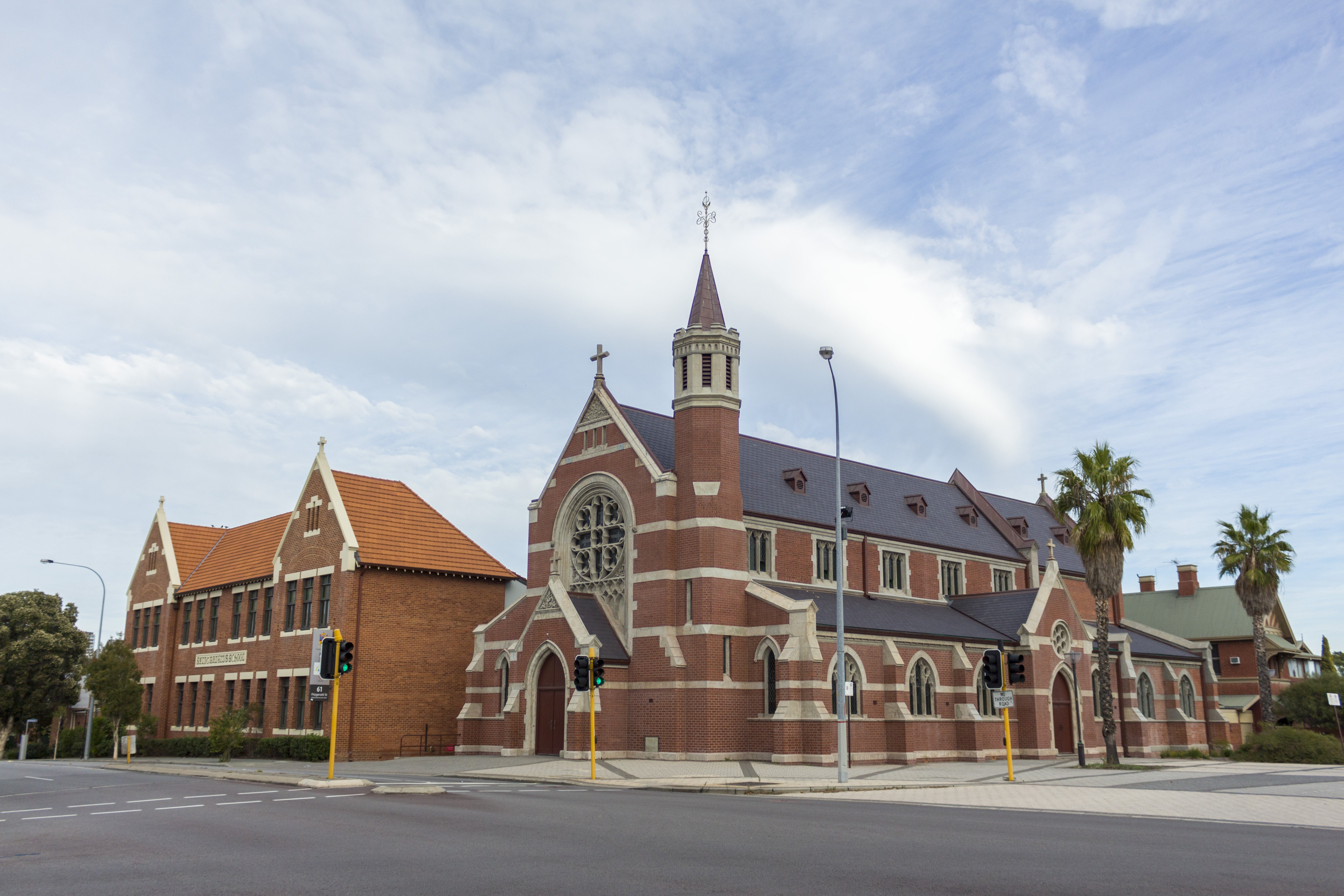 St Brigid's Church in Northbridge, Western Australia with the old St Brigid's School in the background.